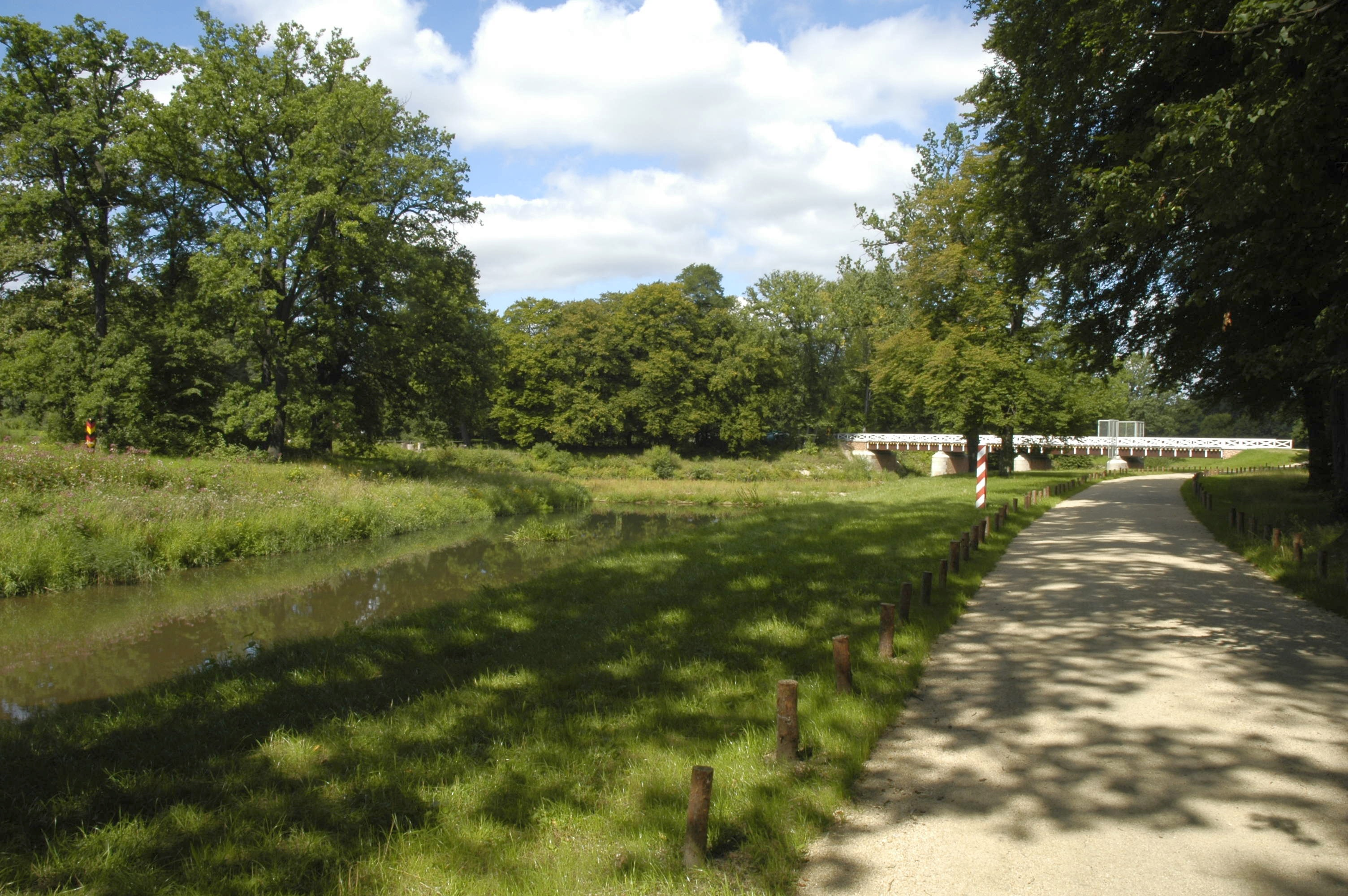 Bridge at Poland-German borderline over Lusatian Neisse river at Muskau Park in Łęknica, Poland.